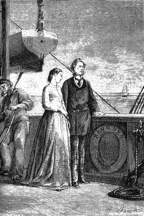 An ilustration from the novel "Around the World in Eighty Days" by Jules Verne painted by Alphonse de Neuville and/or Léon Benett.